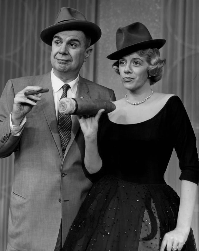 Ken Murray and Rosemary Clooney in a skit from the television program The Lux Show Starring Rosemary Clooney.